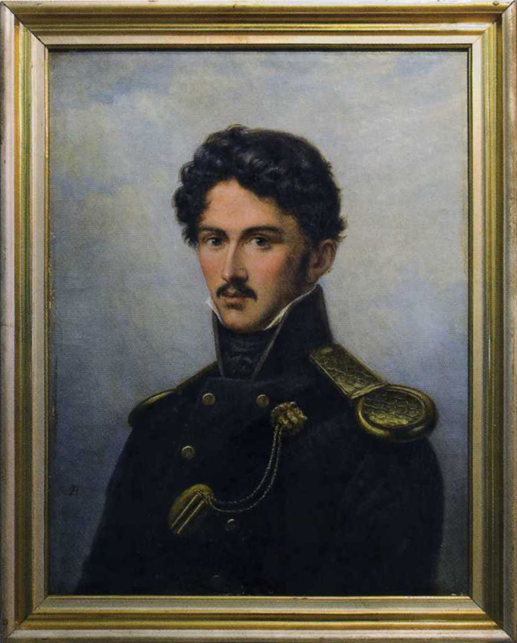 Portrait of Theodor Körner. Artist's signature: JB. Ca. 1830. Oil on canvas, 67 x 50 cm. Art Dealer Dr. Habeck in Aukrug, Germany